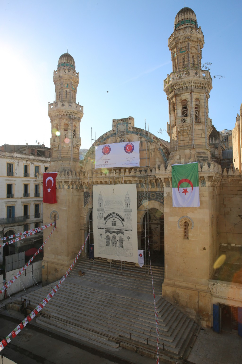 Opening of the Turkish-restored Ketchaoua Mosque.